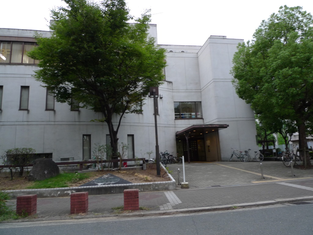 Photo of Kita Library in Osaka City